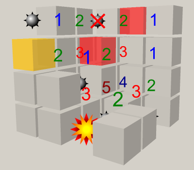 screenshot of a Minesweeper variant in 3D